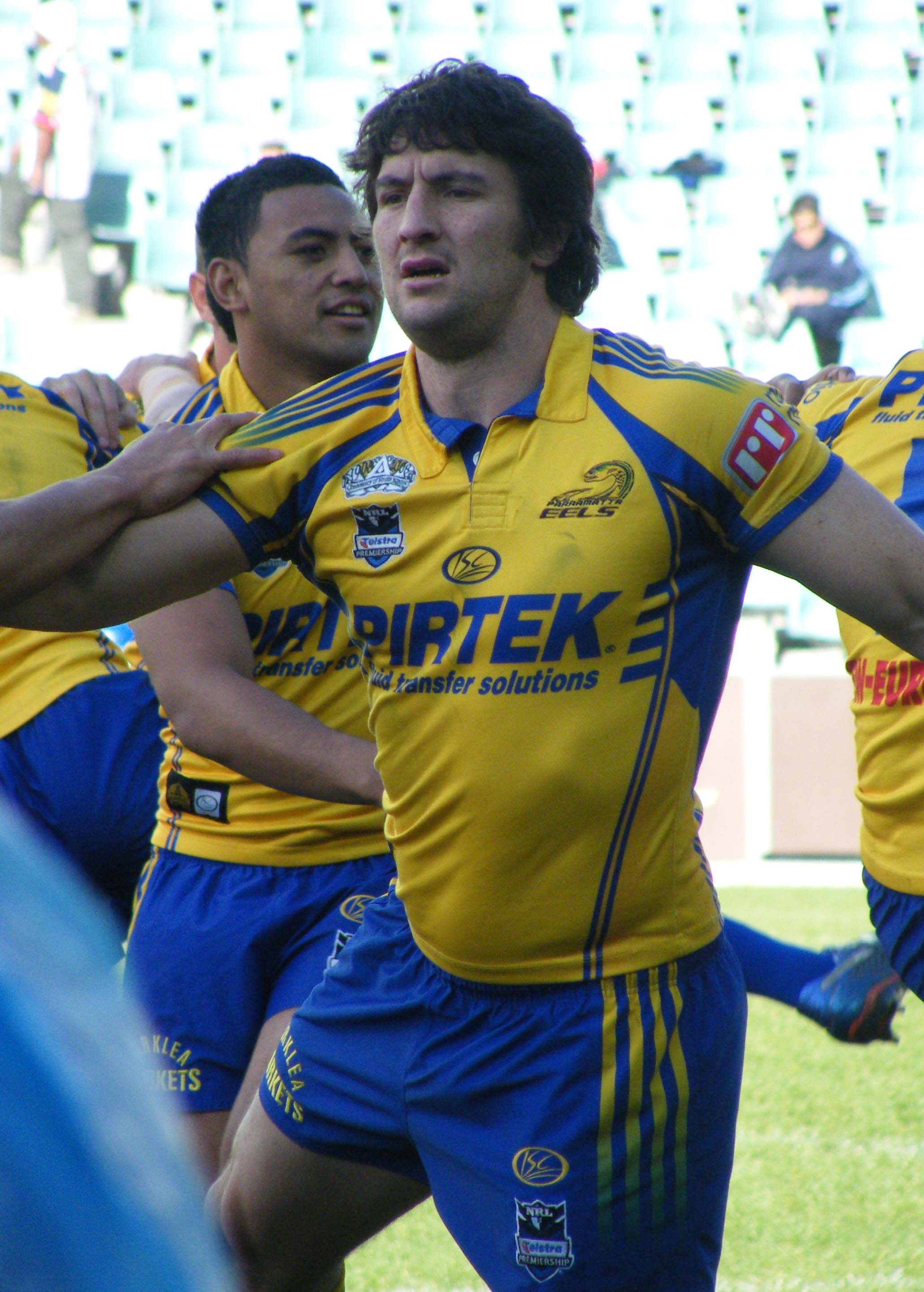 Eels tireless second rower Nathan Hindmarsh warms up before taking on the Sydney Roosters.